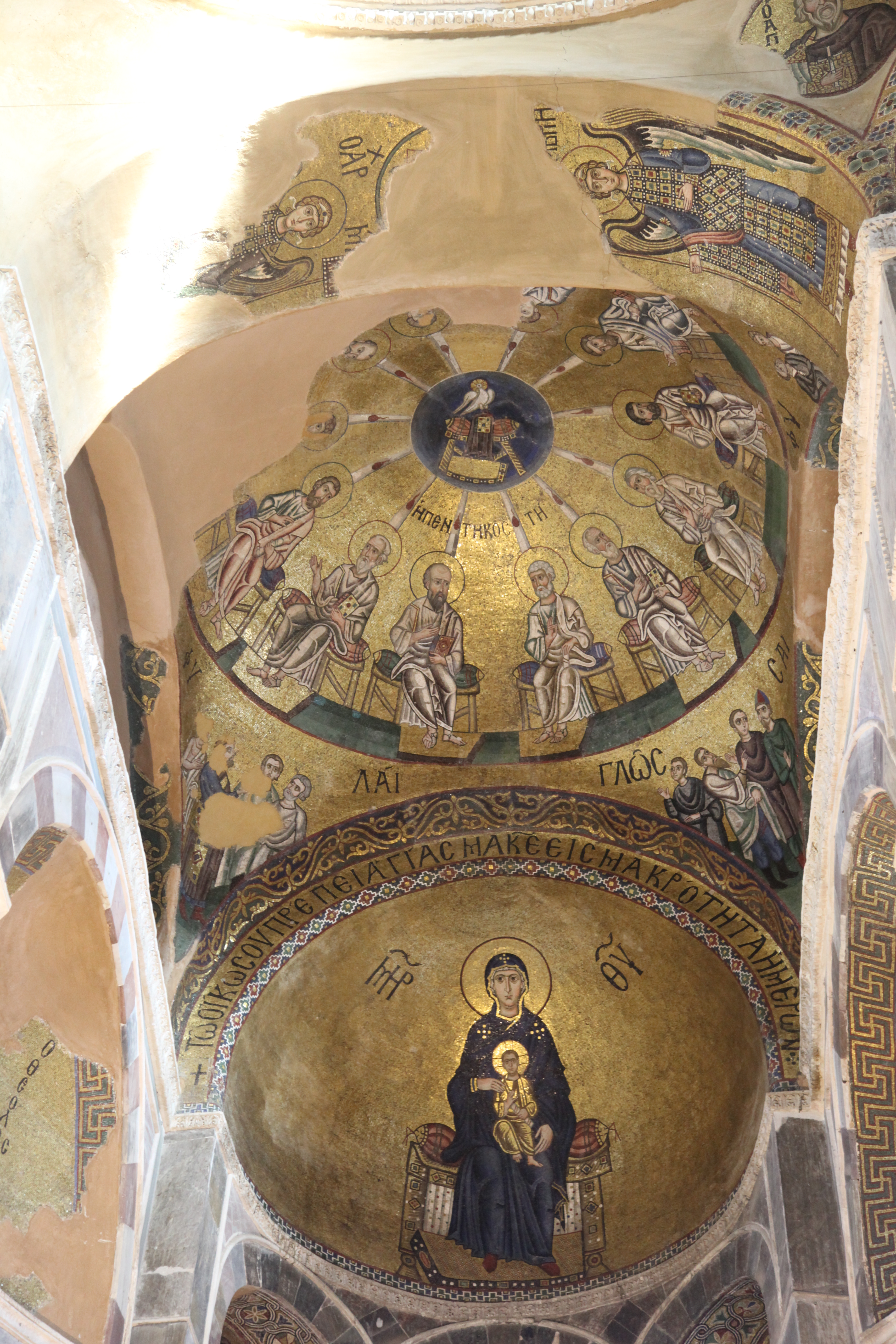 Monastery of Hosios Loukas